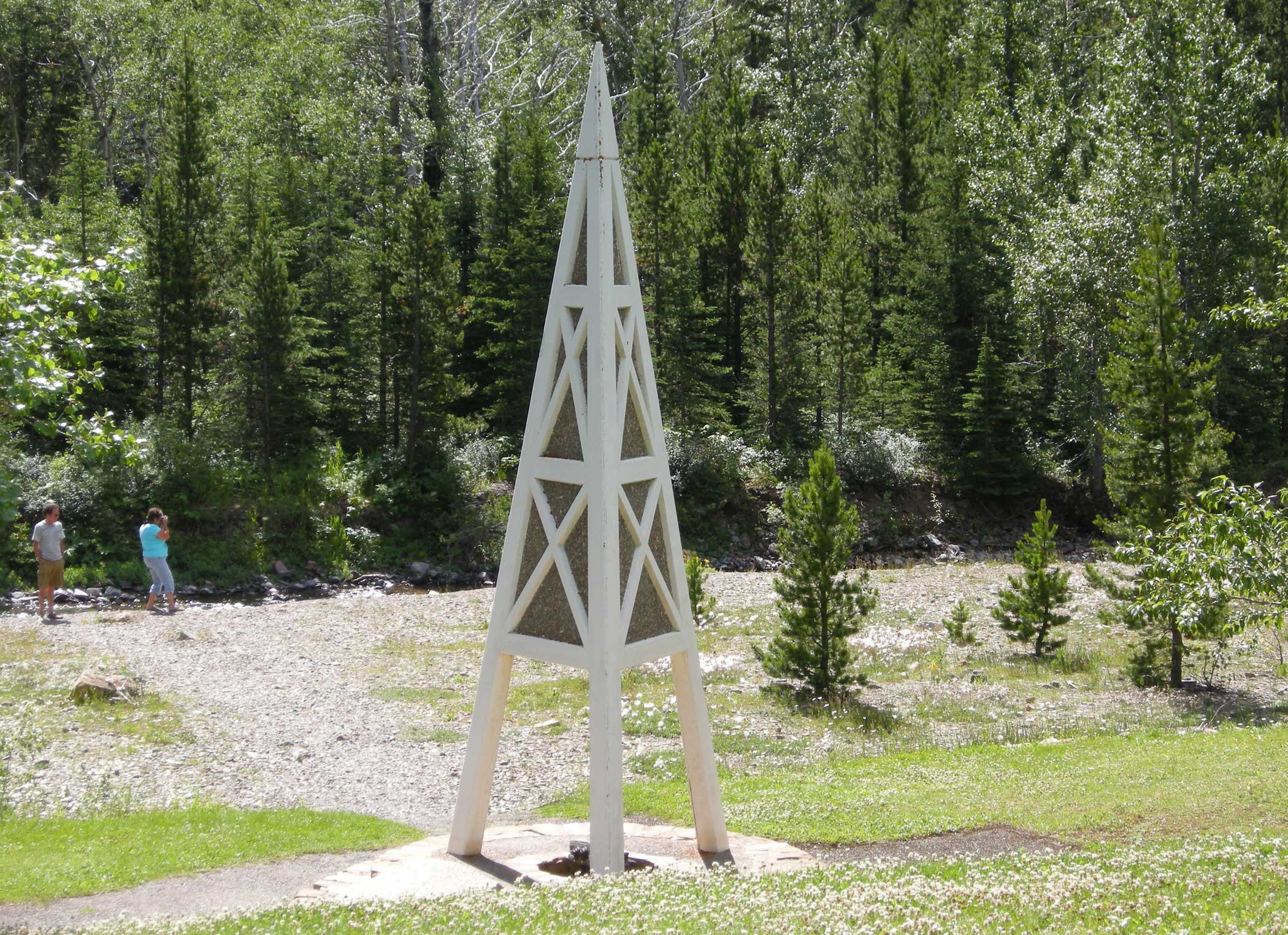 Historical marker for the location of the first commercial oil well in western Canada, along Cameron Creek, Waterton Lakes National Park, Alberta